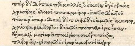 Ilias, V. 632-637. Edition by Bernardus Nerlius, 1488.